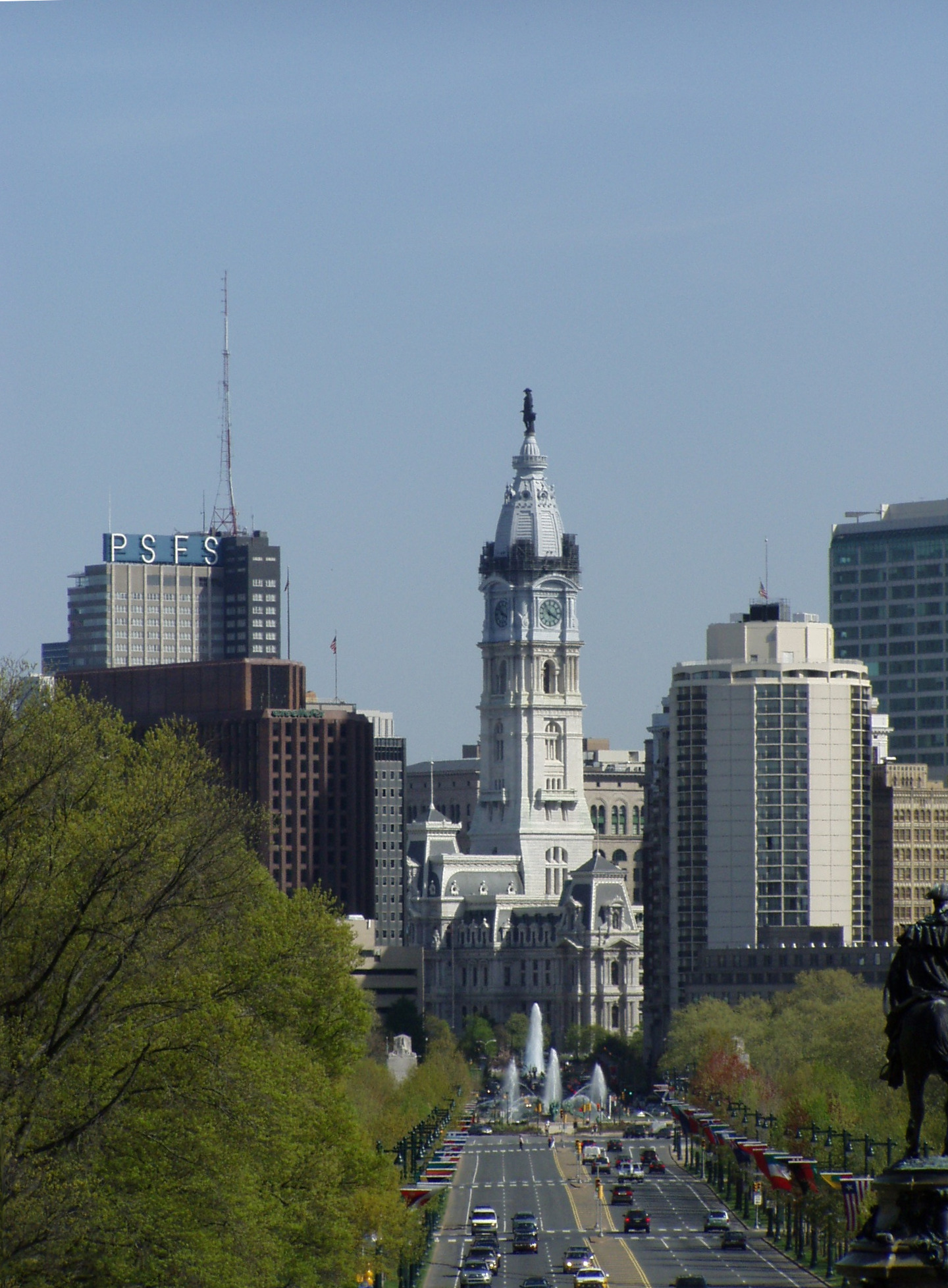 Taken in Philadelphia, Pennsylvania, in April 2006. The Wikipedia:Benjamin Franklin Parkway leading to Logan Circle and Philadelphia City Hall, as seen from the steps of the Philadelphia Museum of Art.